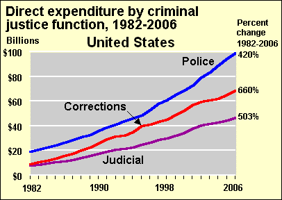 Timeline of yearly U.S criminal justice spending. 1982-2006. By function (police, corrections, judicial). Over 35 billion dollars total in 1982, to 214 billion dollars total in 2006. Not inflation adjusted.